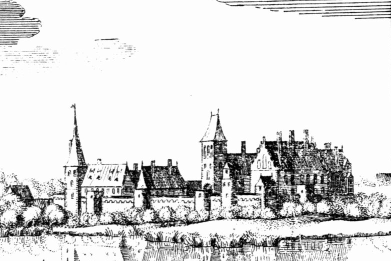 View of Ruppin Castle, Alt Ruppin, Germany, c. 1650. This is a detail of an image of Alt Ruppin that was created by Matthäus Merian the elder in the 17th century.